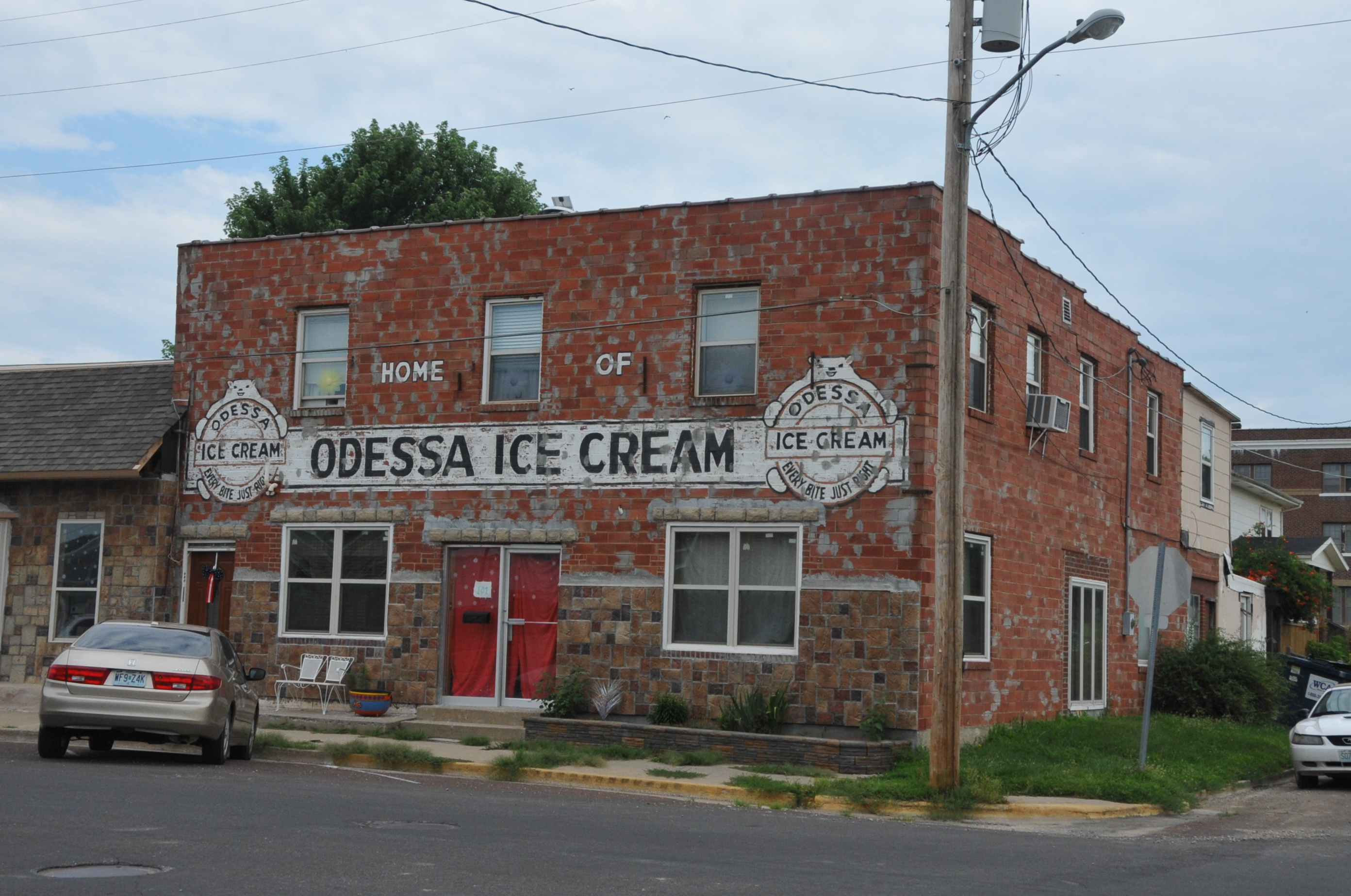 ESTABLISHED IN 1928 BY JOSEPH CLAIR SHRYOCK JUST AT THE OUTSET OF A NATIONWIDE LOVE AFFAIR WITH ICE CREAM., THE ODESSA ICE CREAM COMPANY WAS NOTABLY UNRIVALED FOR ITS PRODUCT IN LAFAYETTE COUNTY, MISSOURI. THE CIRCULAR LOGOS FLANKING ODESSA ICE CREAM ARE REALLY POLAR BEARS WITH THE SLOGAN “EVERY BITE JUST RIGHT”